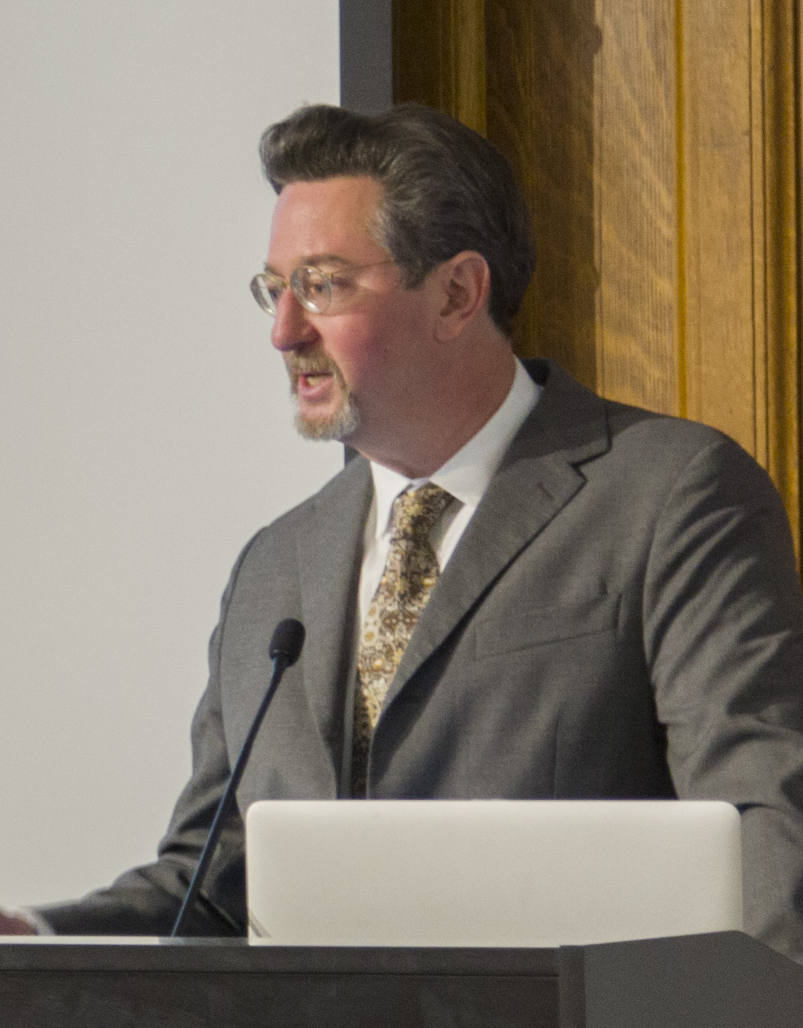 Justin Davidson introduces his book Magnetic City: A Walking Companion to New York at Columbia GSAPP